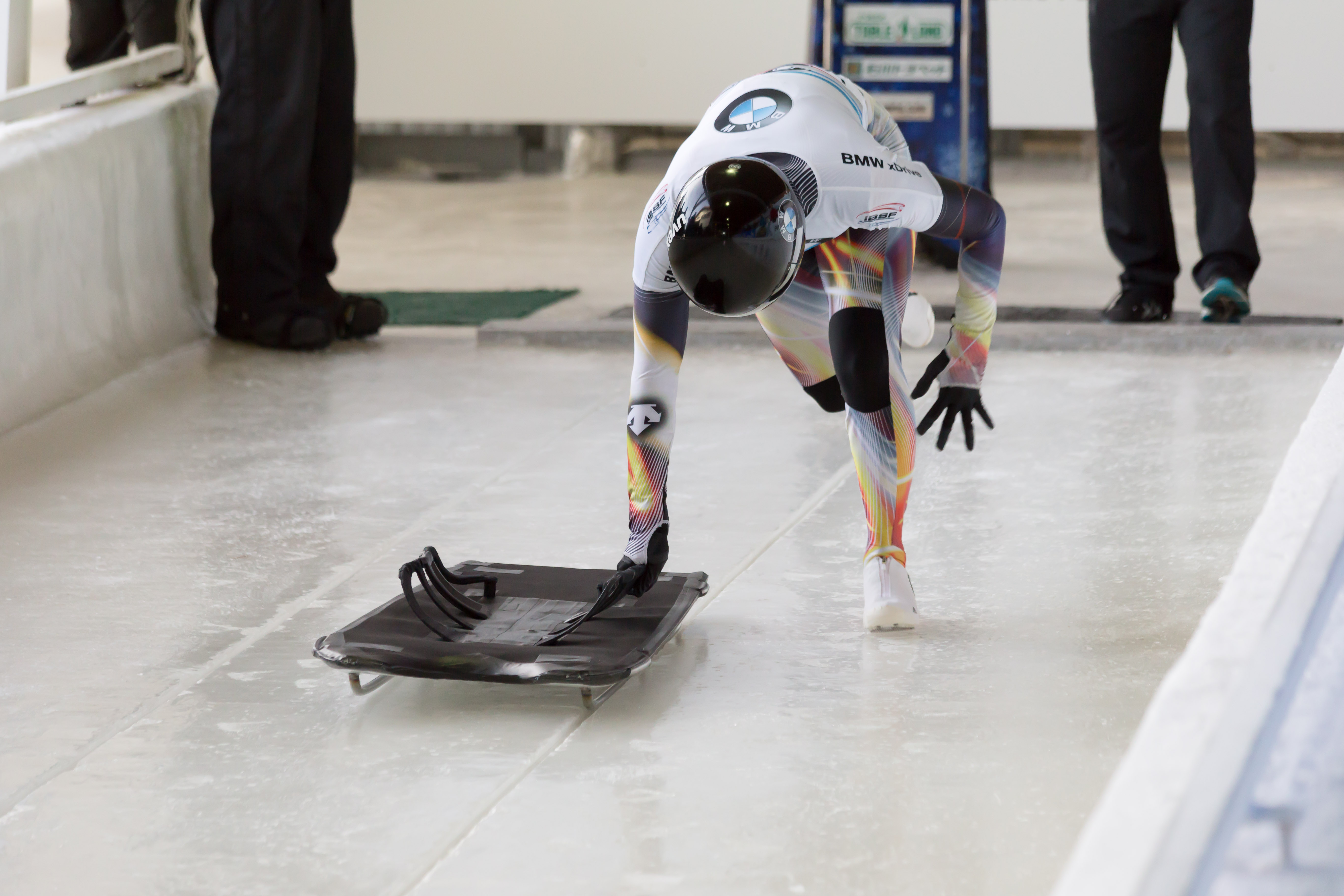 Nozomi Komuro (JPN) is seen starting her second run at the 2017/2018 BMW IBSF World Cup race at Lake Placid.